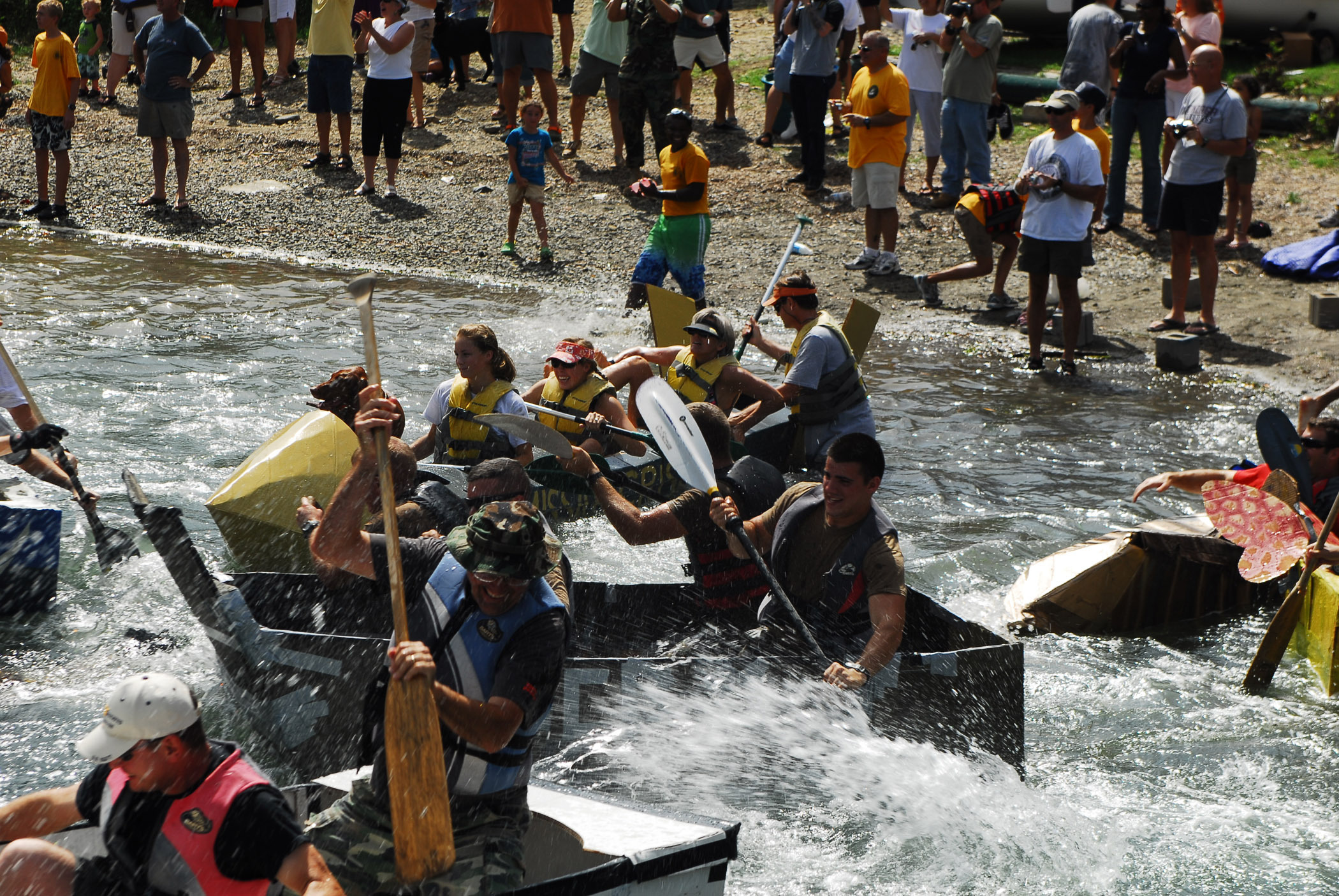 Participants of the Morale, Recreation and Welfare's great cardboard regatta race in their 'boats,' which were constructed of duct tape and cardboard, at the MWR Marina, May 30. Service members from U.S. Naval Station Guantanamo Bay and Joint Task Force Guantanamo were represented in the race. JTF Guantanamo conducts safe, humane, legal and transparent care and custody of detainees, including those convicted by military commission and those ordered released. The JTF conducts intelligence collection, analysis and dissemination for the protection of detainees and personnel working in JTF Guantanamo facilities and in support of the Global War on Terror. JTF Guantanamo provides support to the Office of Military Commissions, to law enforcement and to war crimes investigations. The JTF conducts planning for and, on order, responds to Caribbean mass migration operations.